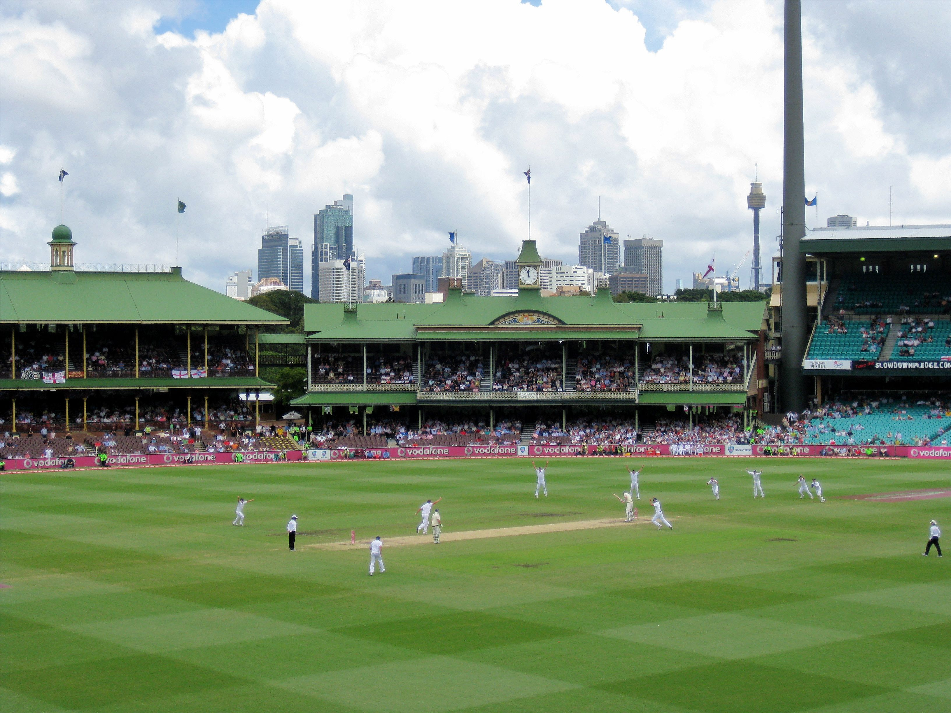 England bowler Chris Tremlett bowls the No 11 Australian batsman Michael Beer to complete England's victory in the Fifth and final Ashes Test at Sydney Cricket Ground on 7 January 2011, sealing the series victory by three matches to one